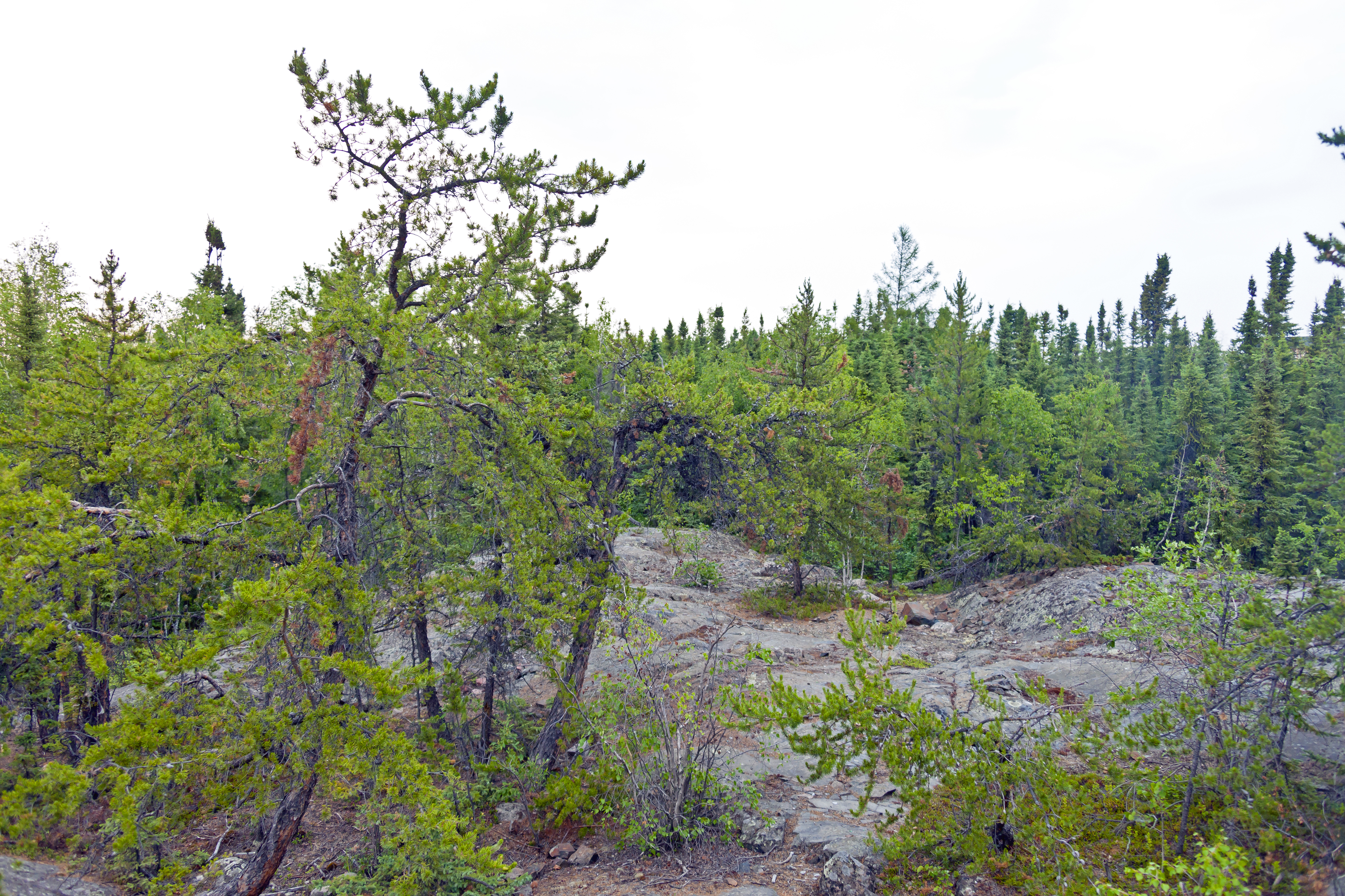 Natural landscape typical of anywhere undeveloped in the Yellowknife area—boreal forest amid outcrops of Canadian Shield bedrock